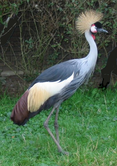 Balearica regulorum